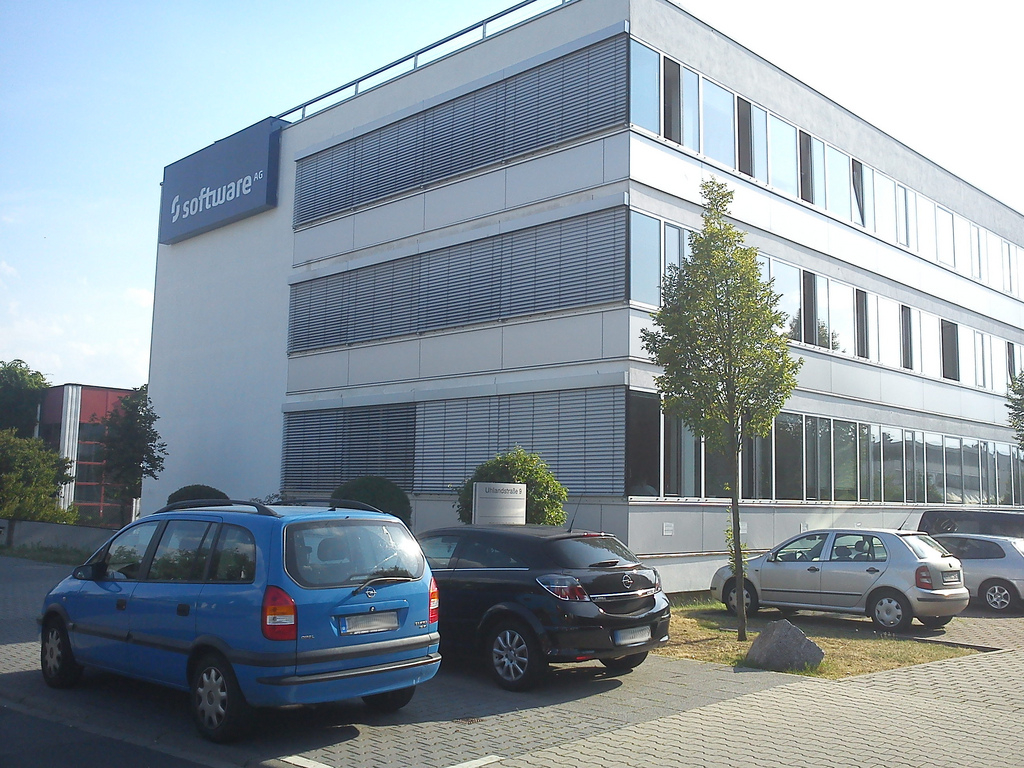 Software AG Headquarters in Darmstadt-Eberstadt